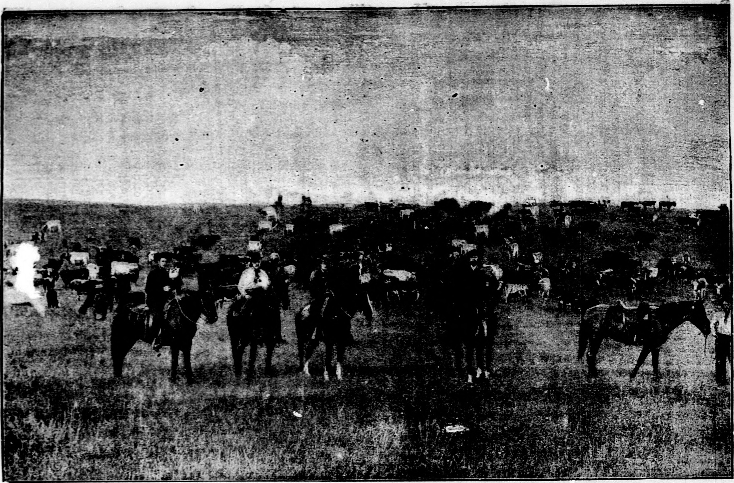 Title: Farming and ranching in Western Canada: Manitoba, Assiniboia, Alberta, Saskatchewan (microform) Year: 1892 (1890s) Authors: Subjects: Agriculture; Agriculture Publisher: (S. l. : s. n. ) Text Appearing Before Image: ' Text Appearing After Image: '